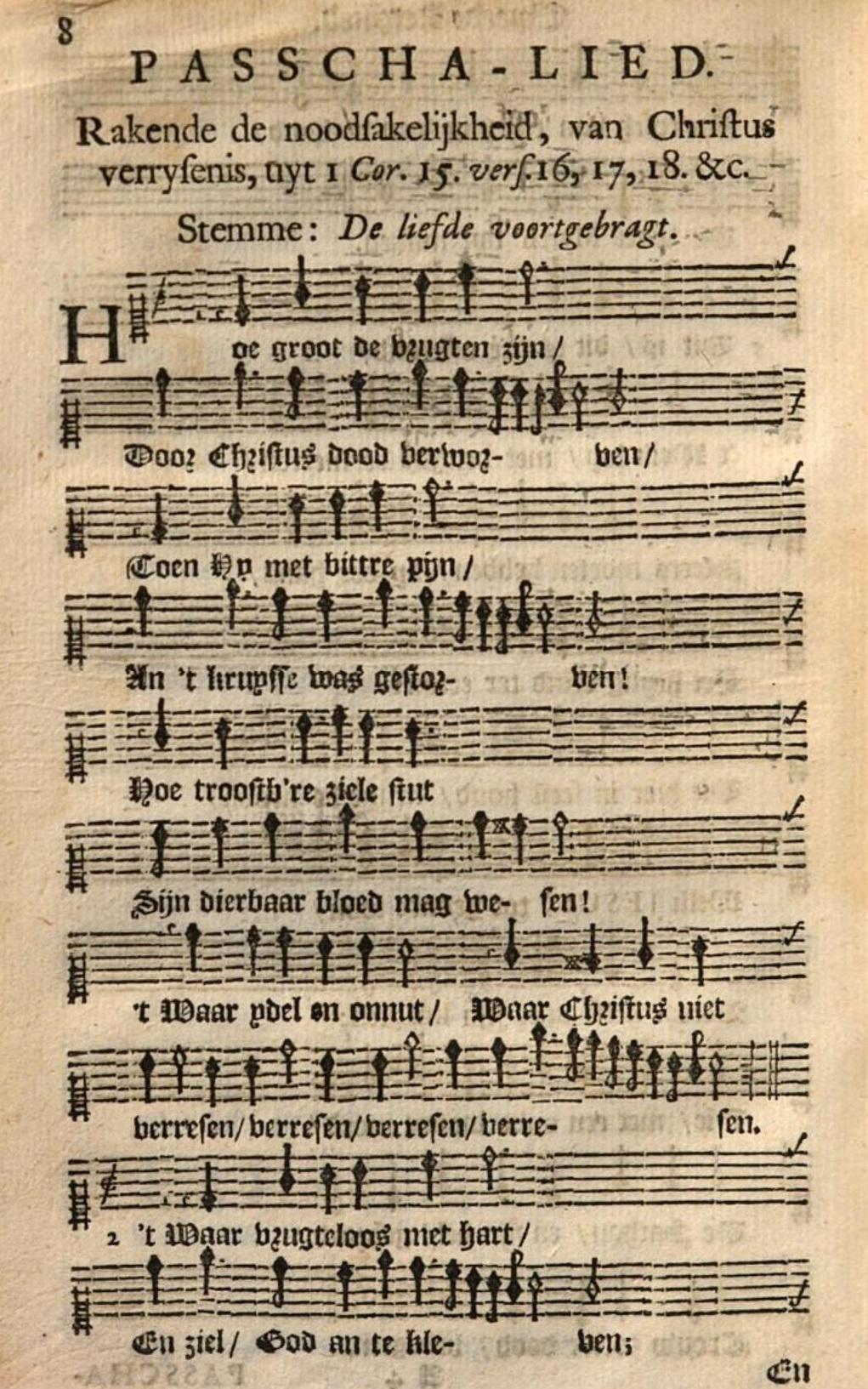 First print of the Dutch Easter hymn Hoe groot de vrugten zijn, first verse